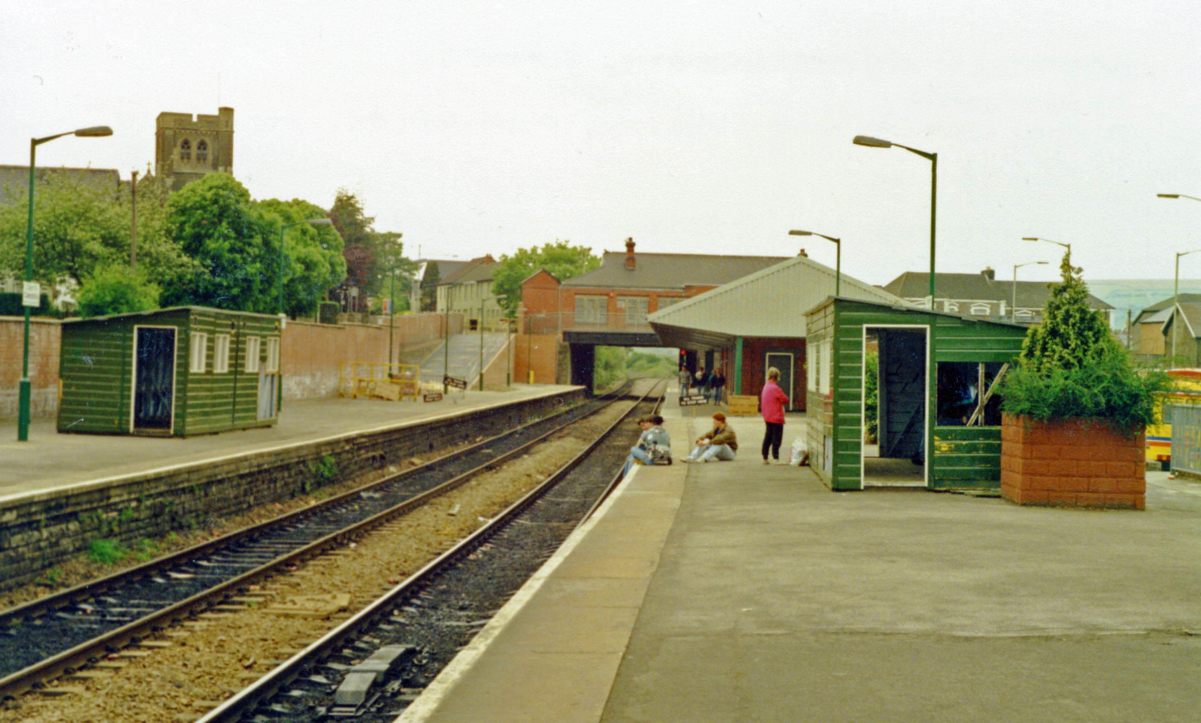 Caerphilly station, 1990. View westward, towards Ystrad Mynach and Rhymney: ex-GWR (ex-Rhymney Railway) Cardiff Queen Street - Rhymney line, formerly with branch to Senghenydd (closed to passengers 6/64): also ex-Brecon & Merthyr Railway Newport - Machen - Dowlais (Top) - Pontsticill Junction - Brecon line (closed to passengers 31/12/62), with a branch to Pontypridd (closed to passengers 7/56). Thus the station had been much busier in Steam Days - also with the vast coal traffic until the virtual end of the mines after the mid-19080s: it was at its nadir here in 1990 and has been restored more recently, with an extra bay platform for Cardiff-bound trains, for the greatly enhanced Rhymney service - soon to be electrified.